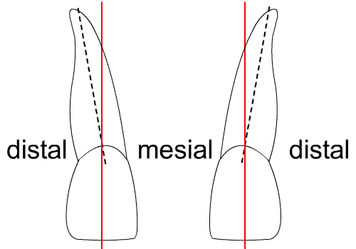 (tooth) (root characteristic)